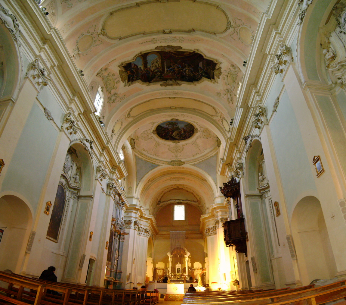 The interior of the church of St. Francis in Lanciano, province of Chieti, Abruzzo